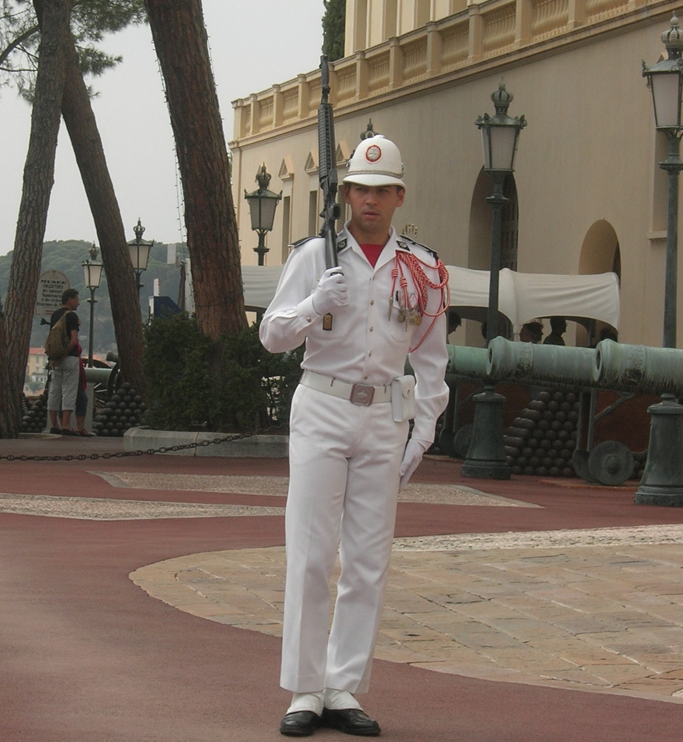 A member of Monaco's armed forces on guard duty at the Prince's Palace, Autumn 2007.